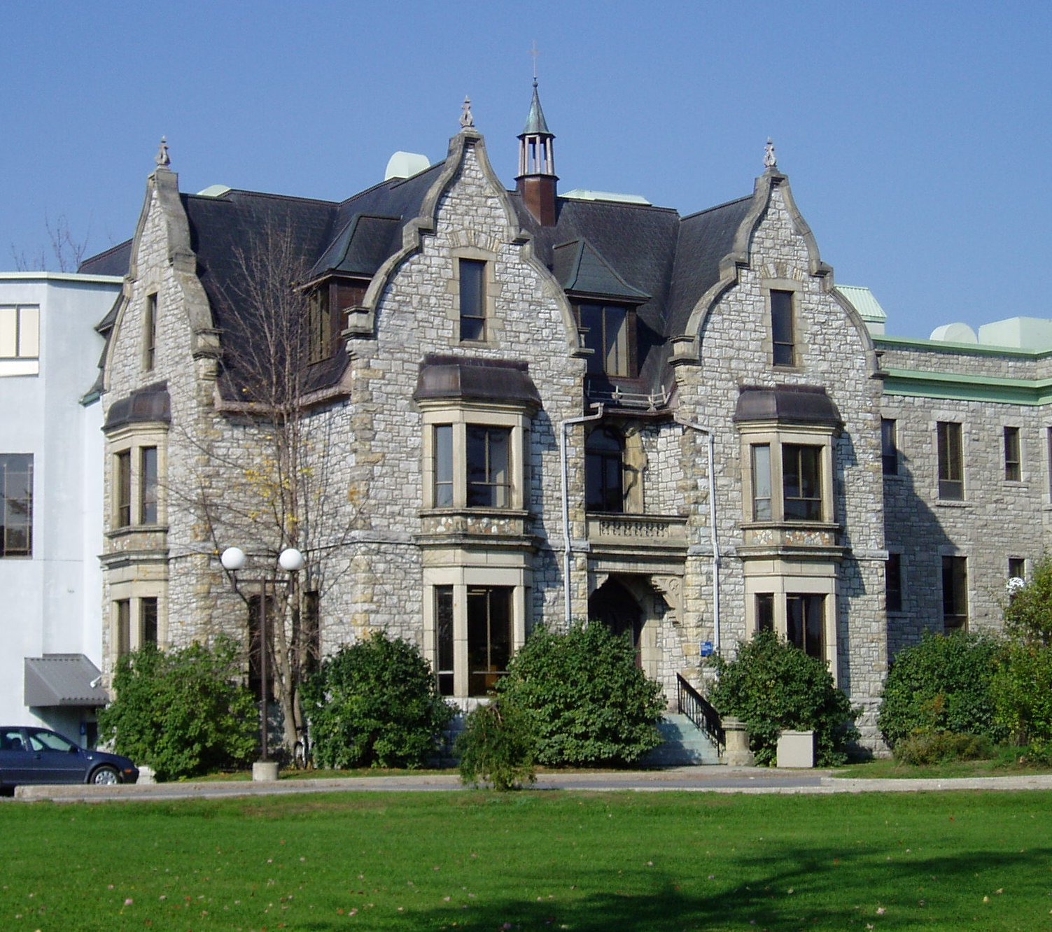 Riverview, taken by SimonP